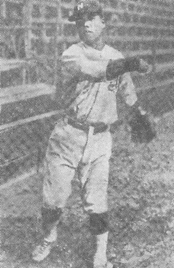 a baseball player from Japan, 山本栄一郎（Eiichiro Yamamoto）